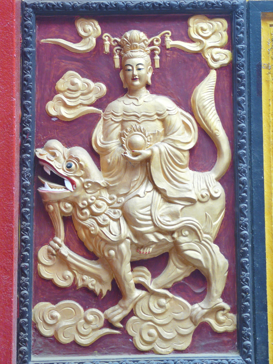 This relief is of the Bodhisattva Manjusri (Van tu bo tat in Vietnamese). It is located in the Chinese-style Quan Am Pagoda in Cho Lon, Ho Chi Minh City, Vietnam.